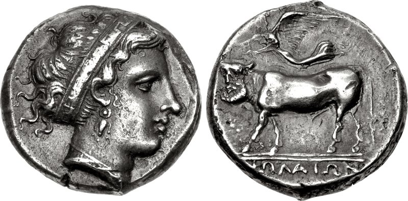 Campania, Nola. Circa 400-385 BC. AR Nomos (18mm, 7.24 g, 1h) Head of a nymph to right, her hair tied with a diadem adorned with a maeander pattern and wearing a triple pendant earring and a simple necklace. ΝΩΛΑΙΩΝ Man-headed bull walking to left, his head turned slightly to front; above, Nike flying left to crown him with a wreath.